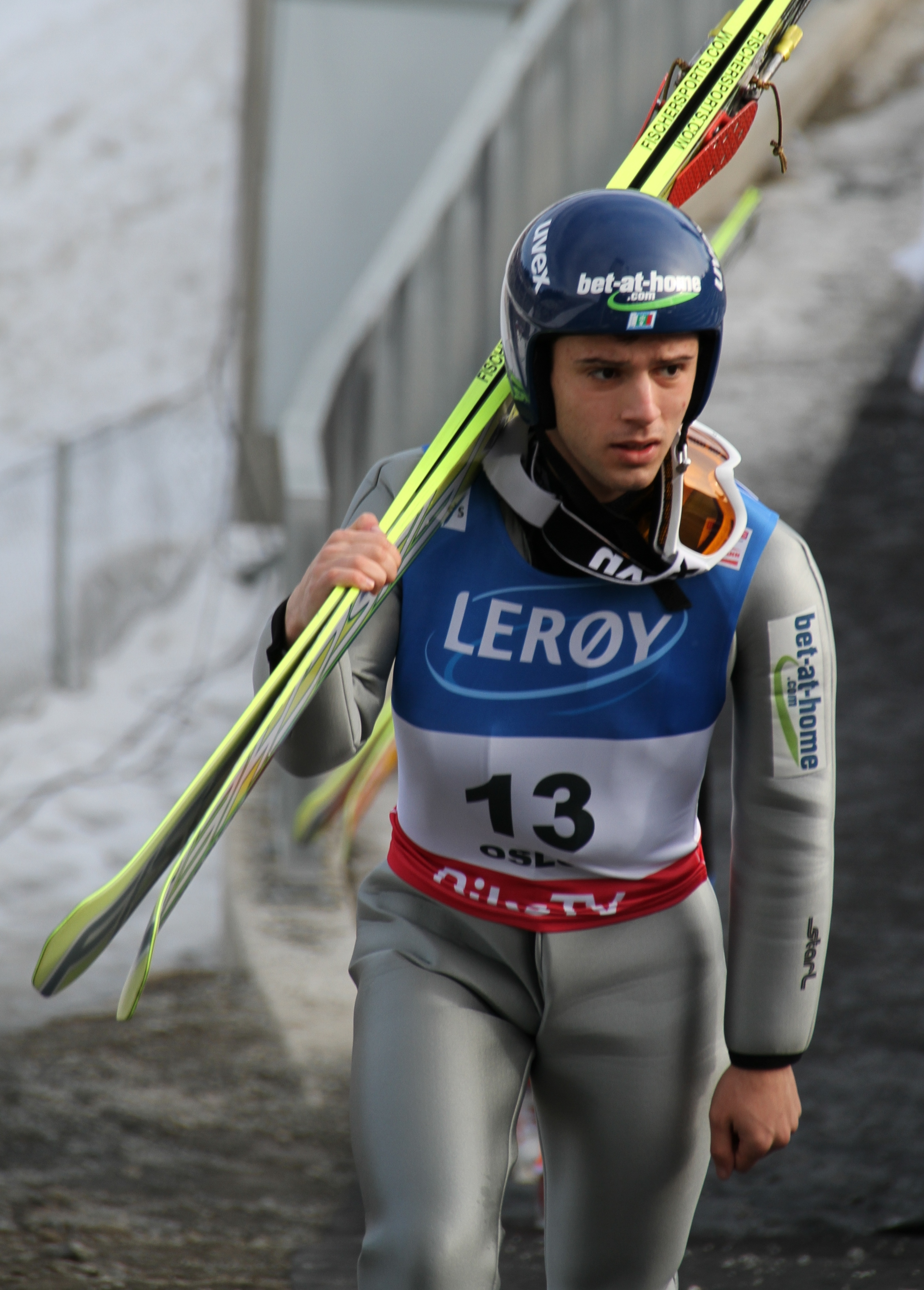 Holmenkollen World Cup March 11, 2012. Oslo, Norway.